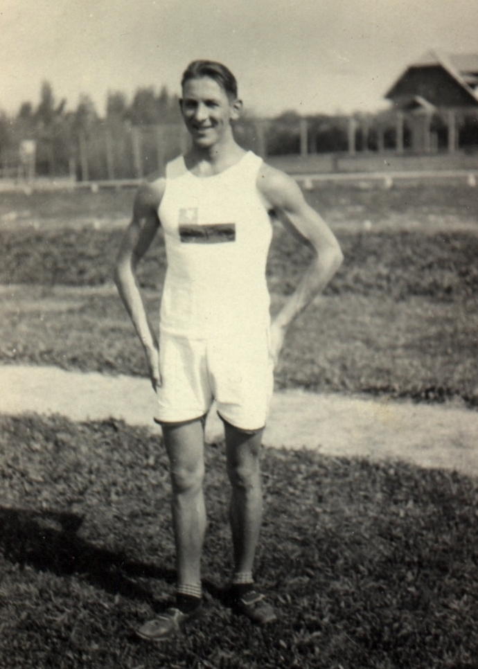 Alex Hannig, Chile, Olympic Games of Amsterdam 1928, Athletics, 200- and 400-meter-Run